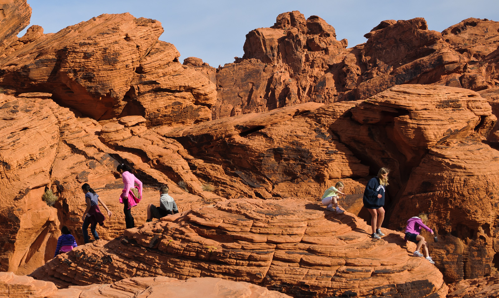 One of the crown jewels of Nevada State Parks system, Valley of Fire is a nice day trip from Las Vegas, and offers many hiking opportunities.